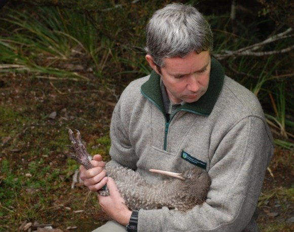 Chris Goulding from DOC holding a great spotted kiwi/roroa during a release in Kahurangi National Park